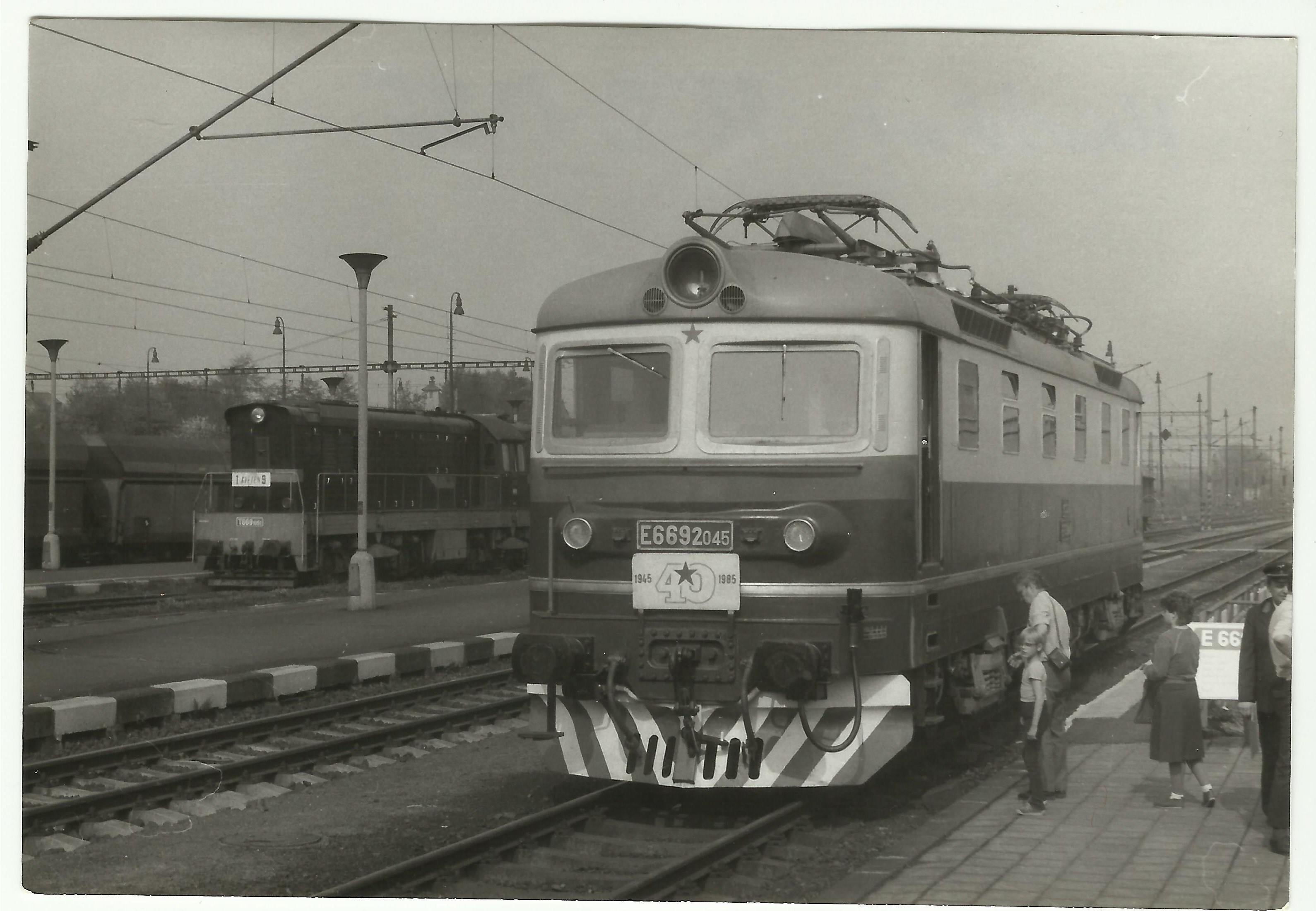 E 669 2045, Havířov 12.5. 1985 (Czechoslovakia).